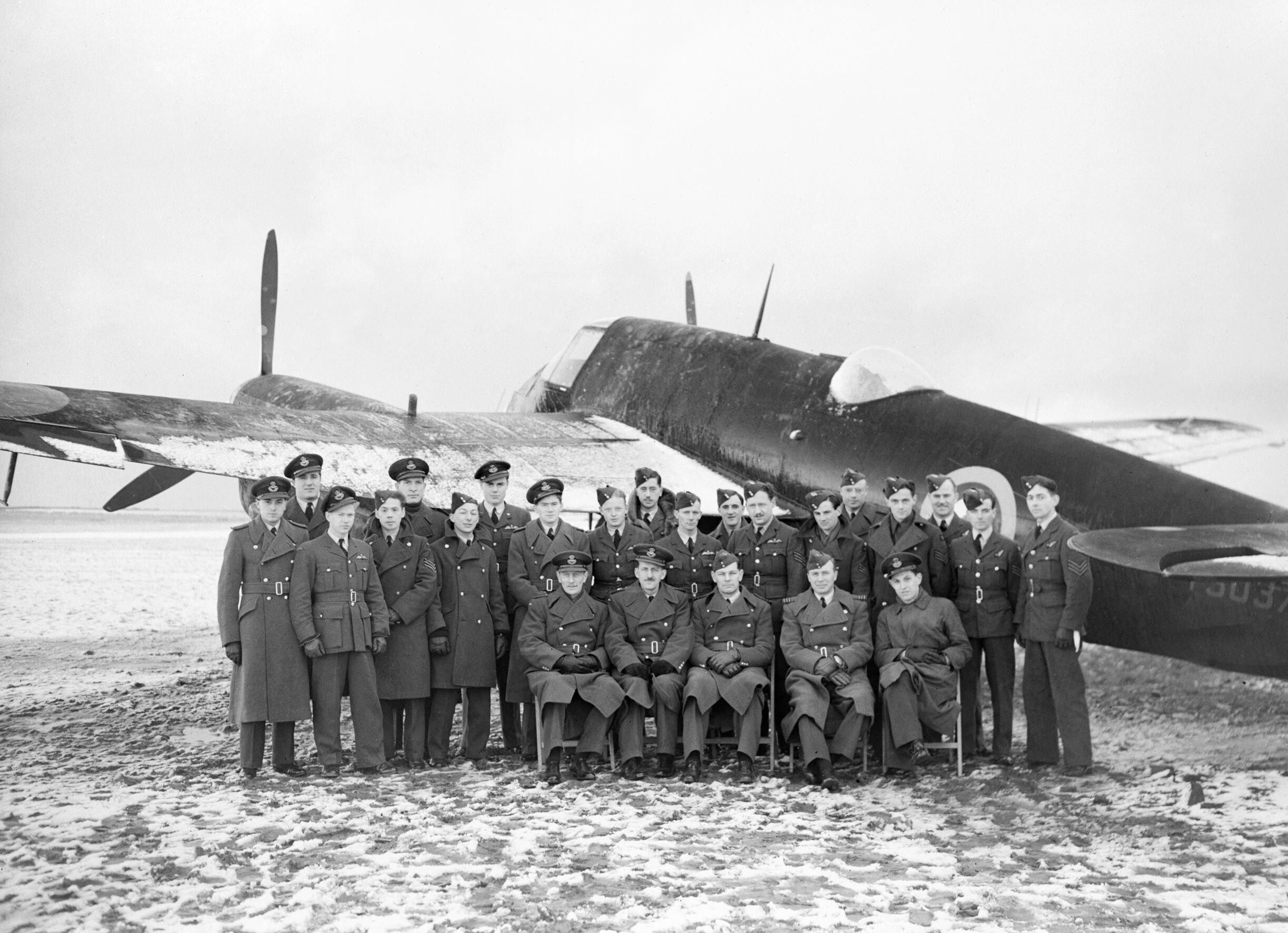 Personnel of 'B' Flight, No. 409 Squadron RCAF, pose for a formal portrait with one of their Beaufighter Mk IIs at Acklington, January 1942. 'B' Flight of No 409 Squadron, Fighter Command's first Canadian night-fighter unit, pose for a formal portrait with one of their Merlin-engined Beaufighter IIs Acklington, January 1942.